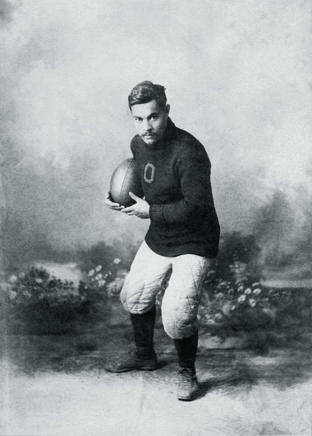 John Henry Wise of Kohala, Hawaii, was of half-German and half-Hawaiian descent. Wise became the first Hawaiian to play college football in America at Oberlin College. He was said to be able to run "with three men on his back without noticing the extra weight." Photo from Oberlin College Archives.